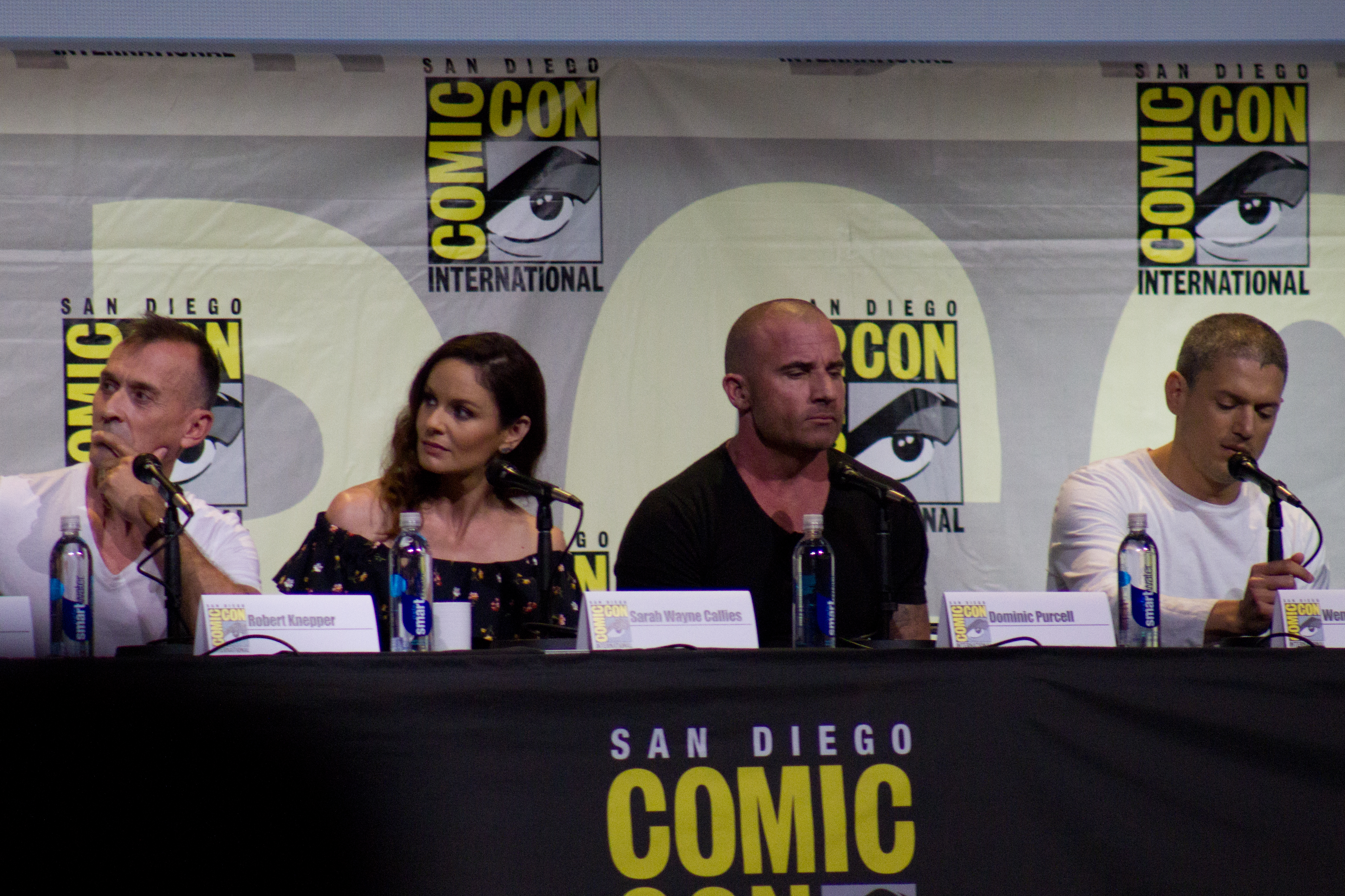 Prison Break